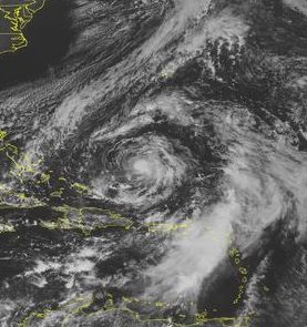 Satellite image shot of Tropical Storm Otto north of the Greater Antilles, shortly after completing tropical cyclogenesis.